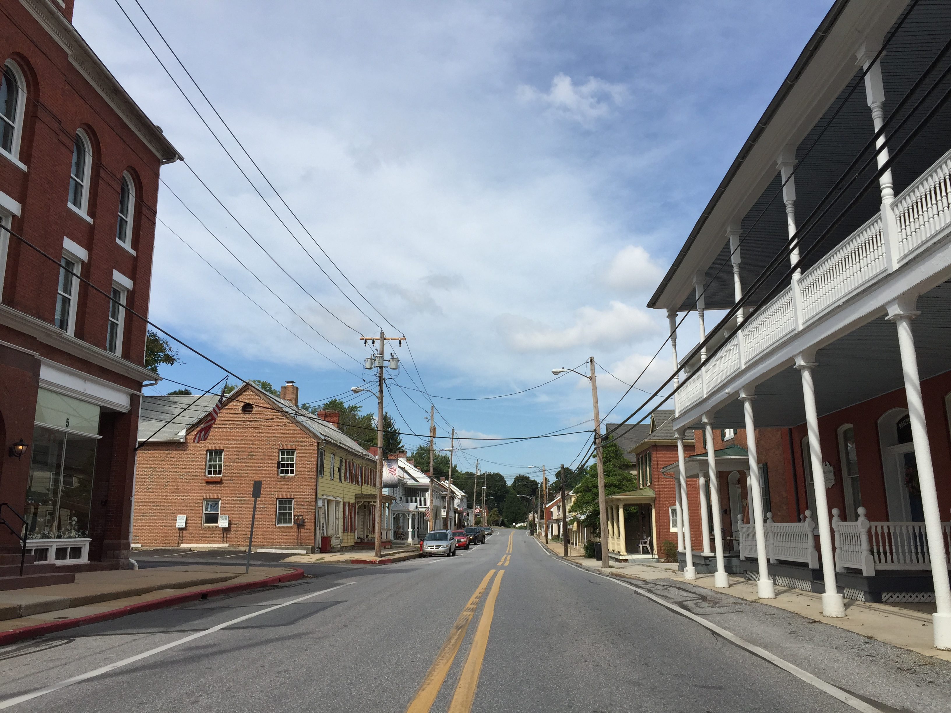 View north along Main Street between Elizabeth Street and Dorcus Alley in Woodsboro, Frederick County, Maryland